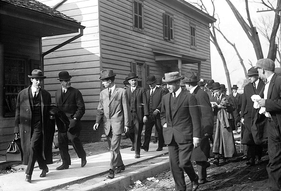 "Taking Becker to Sing Sing" An undated image, from the Bain News Service, of Charles Becker being escorted to Sing Sing jail, where he would later be executed.